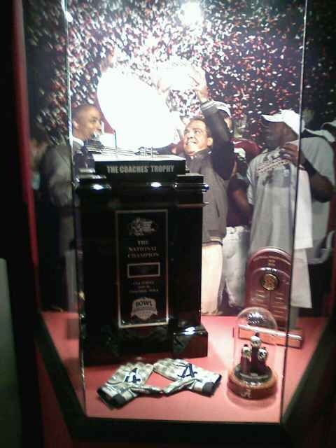 2010 Alabama Crimson Tide football AFCA National Championship Trophy (Coaches' Trophy) on display at the Paul W. Bryant Museum in Tuscaloosa, AL